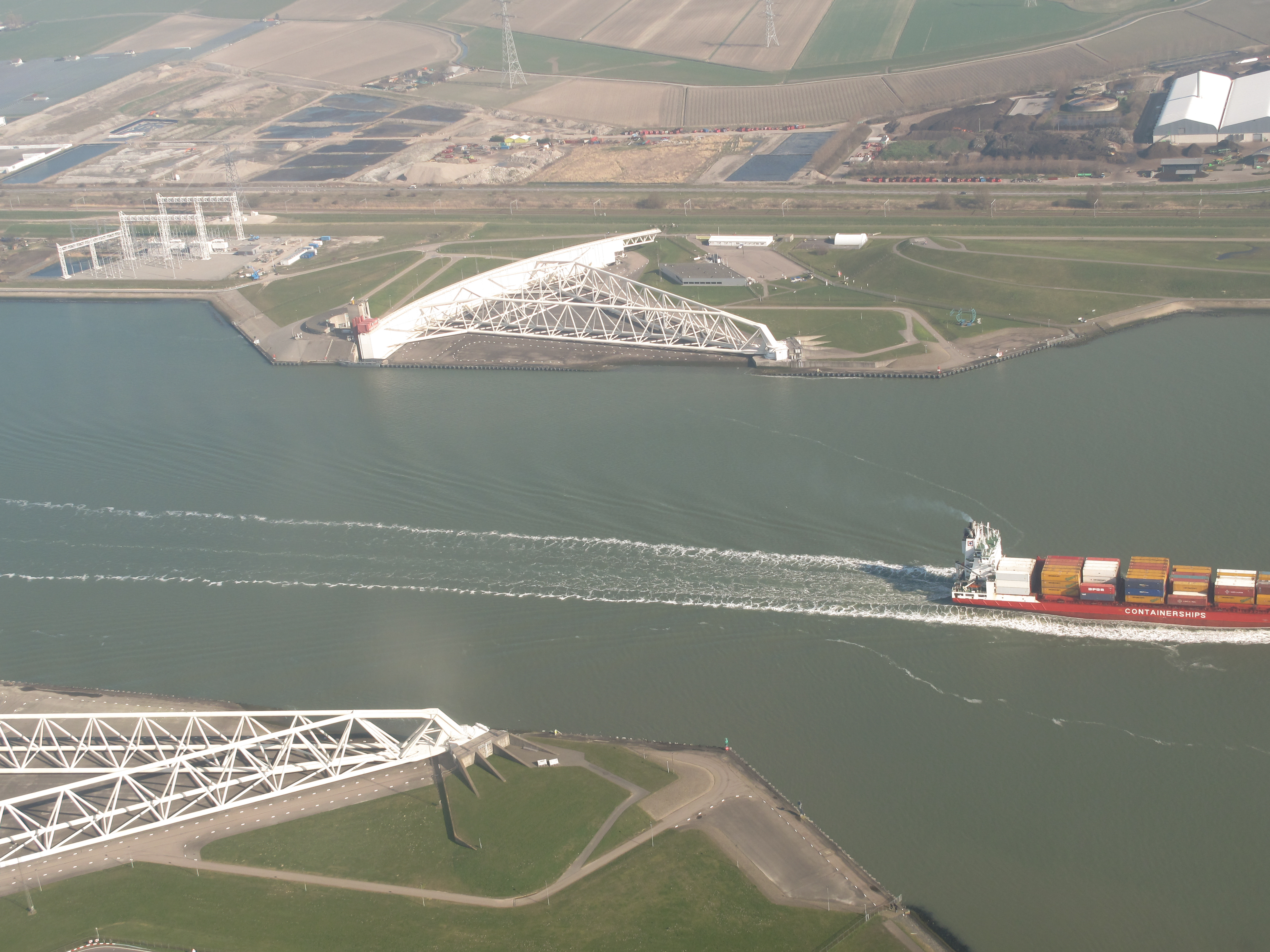 near Maasdijk, storm surge: de Maeslantkering